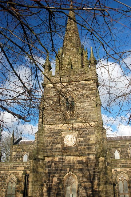 South tower and spire of All Saints' parish church, Sedgley, West Midlands, seen from the south